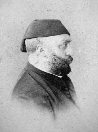 Abdul Aziz